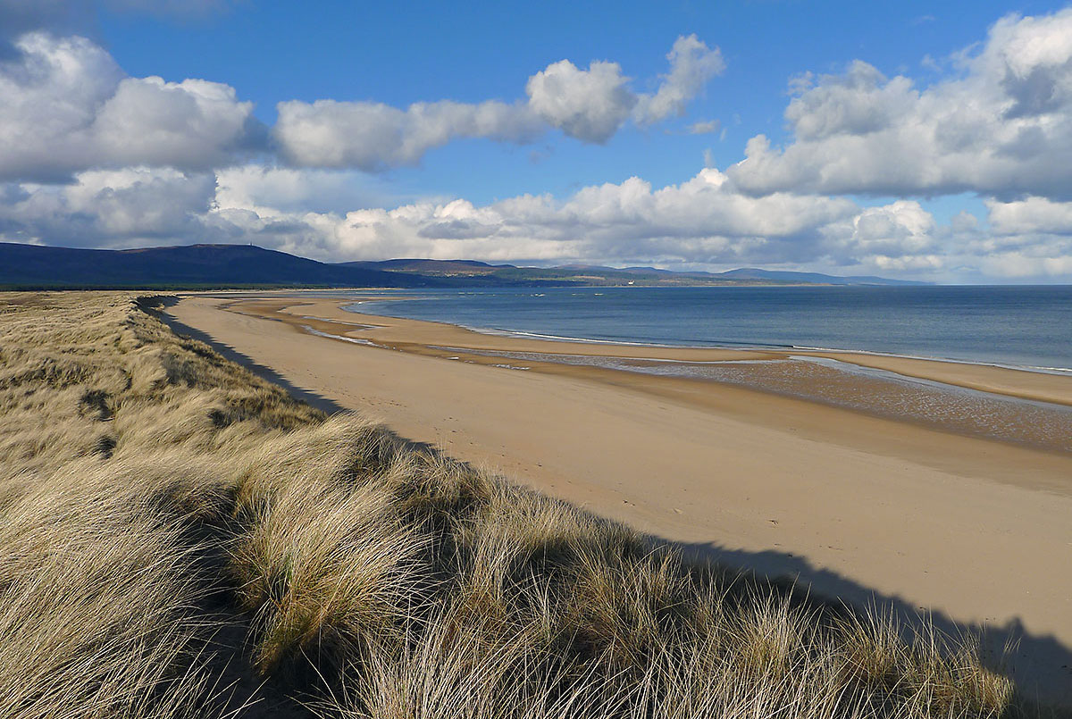 The long sweep of the sand from Embo to Loch Fleet